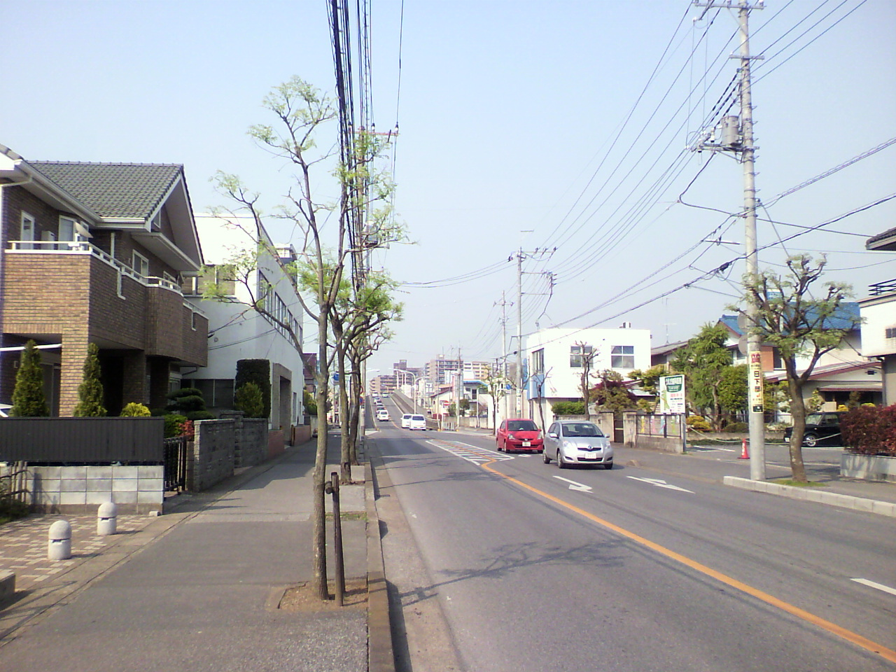 This is a landscape of Minami 1 chome, Kasukabe, Saitama, Japan.